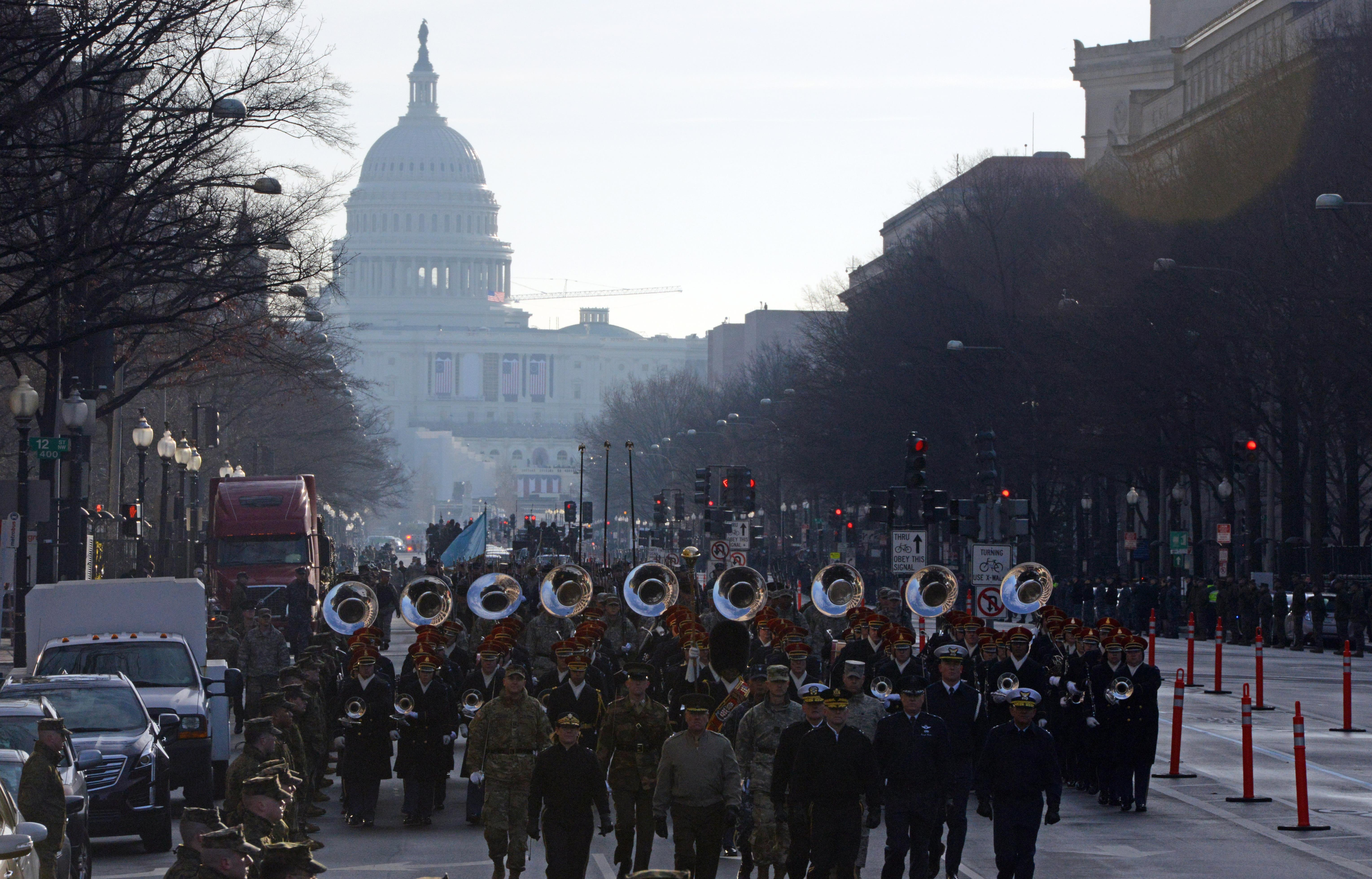 Service members march down Pennsylvania Avenue in a dress rehearsal for the 58th Presidential Inauguration in Washington, D.C., Jan. 15, 2017. Army photo by David Vergun